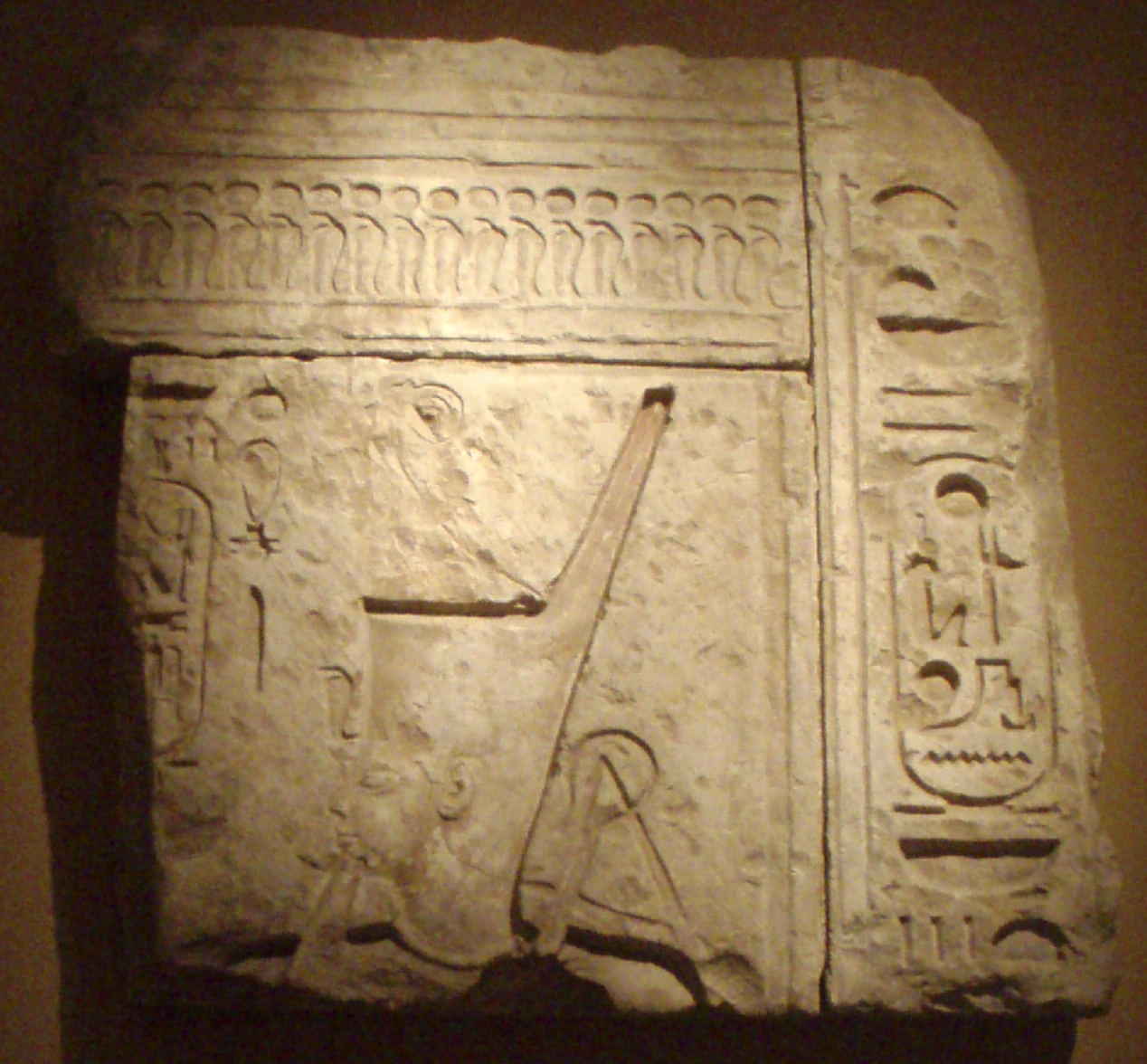 Relief of Ramesses II wearing the Red Crown of Lower Egypt, depicting a royal Jubilee. 19th dynasty, circa 1279-1213 B.C. Made of limestone, it was found by Flinders Petrie at Herakleopolis.